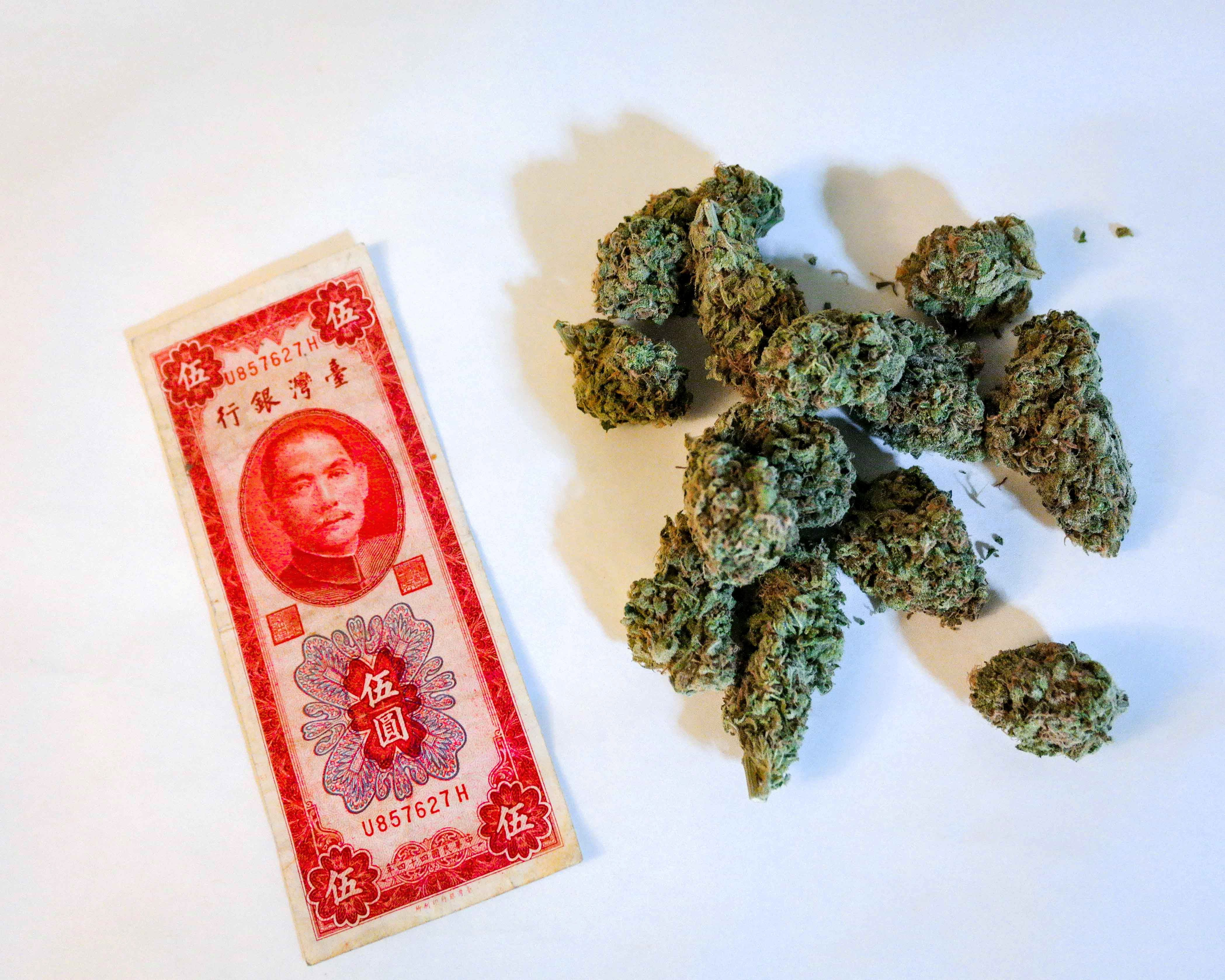 Half an ounce of Blue Dream, a sativa hybrid, next to a 1955 five yuan note printed by the Bank of Taiwan, depicting Dr. Sun Yat-Sen.